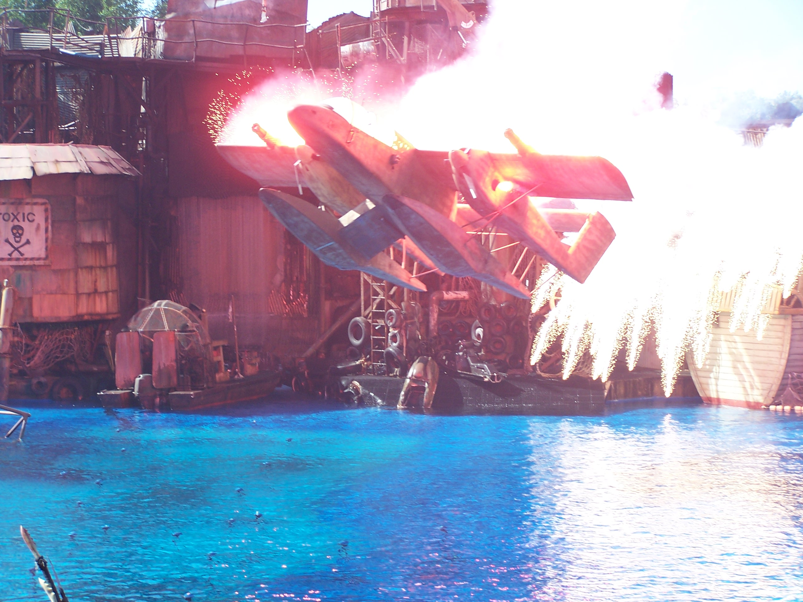 A plane being launched in Waterworld: A Live Sea War Spectacular.